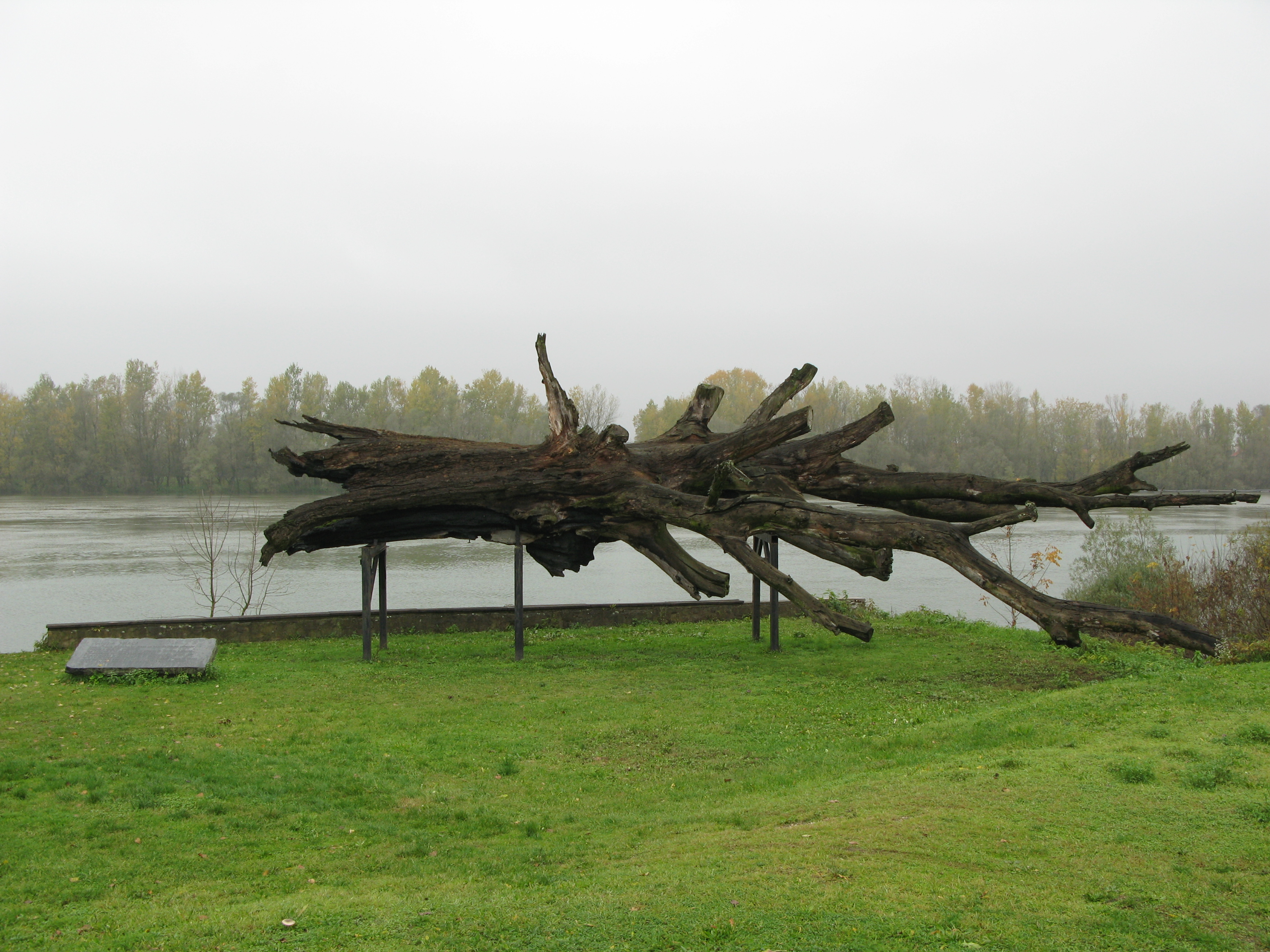 Populus of horror, tree where Ustaše were hanging and butchering Serbs, Jews and Gypsies. Its was part of Donja Gradina extermination camp, south of Jasenovac concentration camp. Some traces of horror are still visible (wedge, holes made for hanging). Tree was hit by lighting in 1978 and crushed, now is part of Donja Gradina memorial camp.